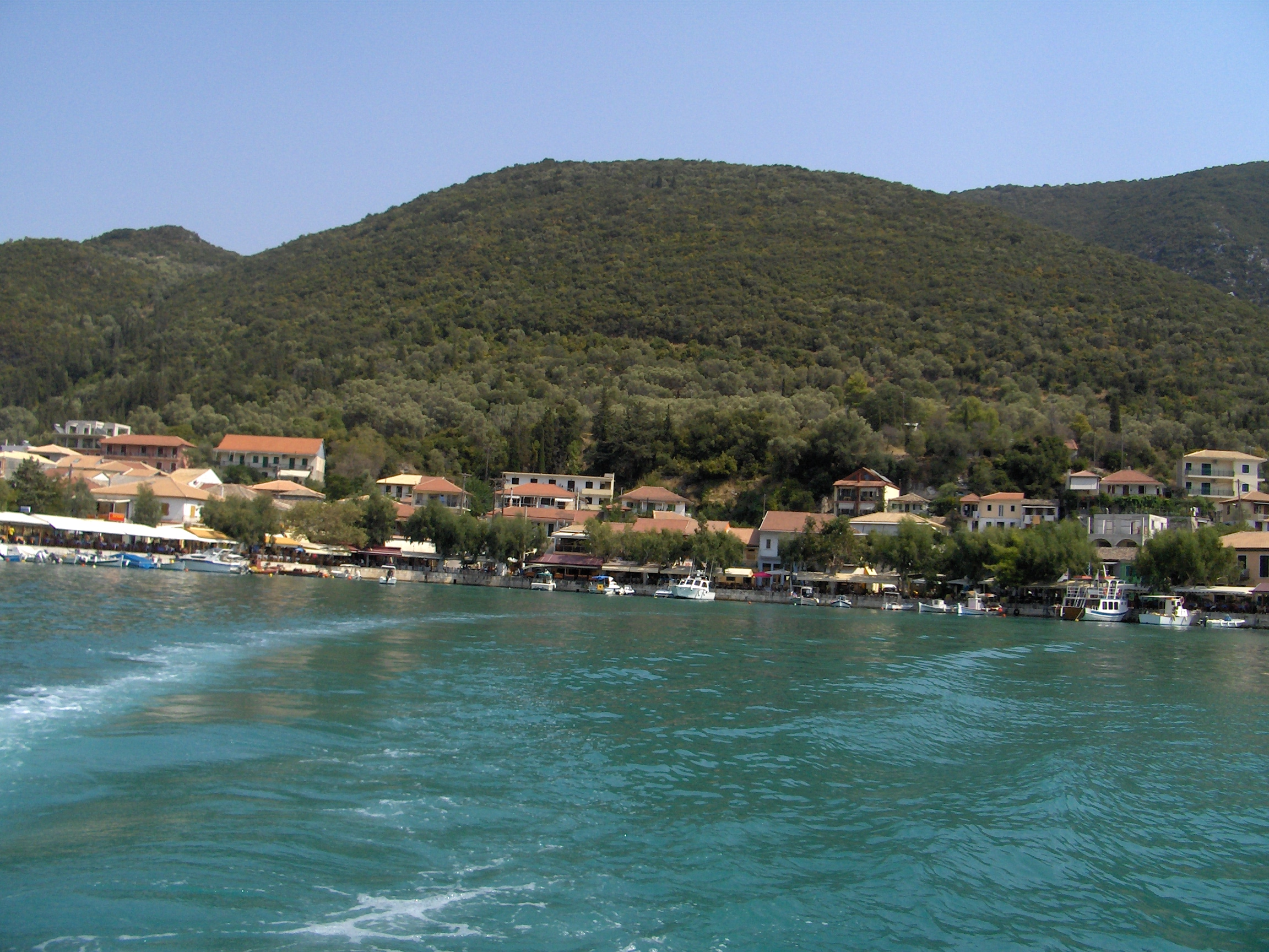 View of Vasiliki, Lefkada, Greece.